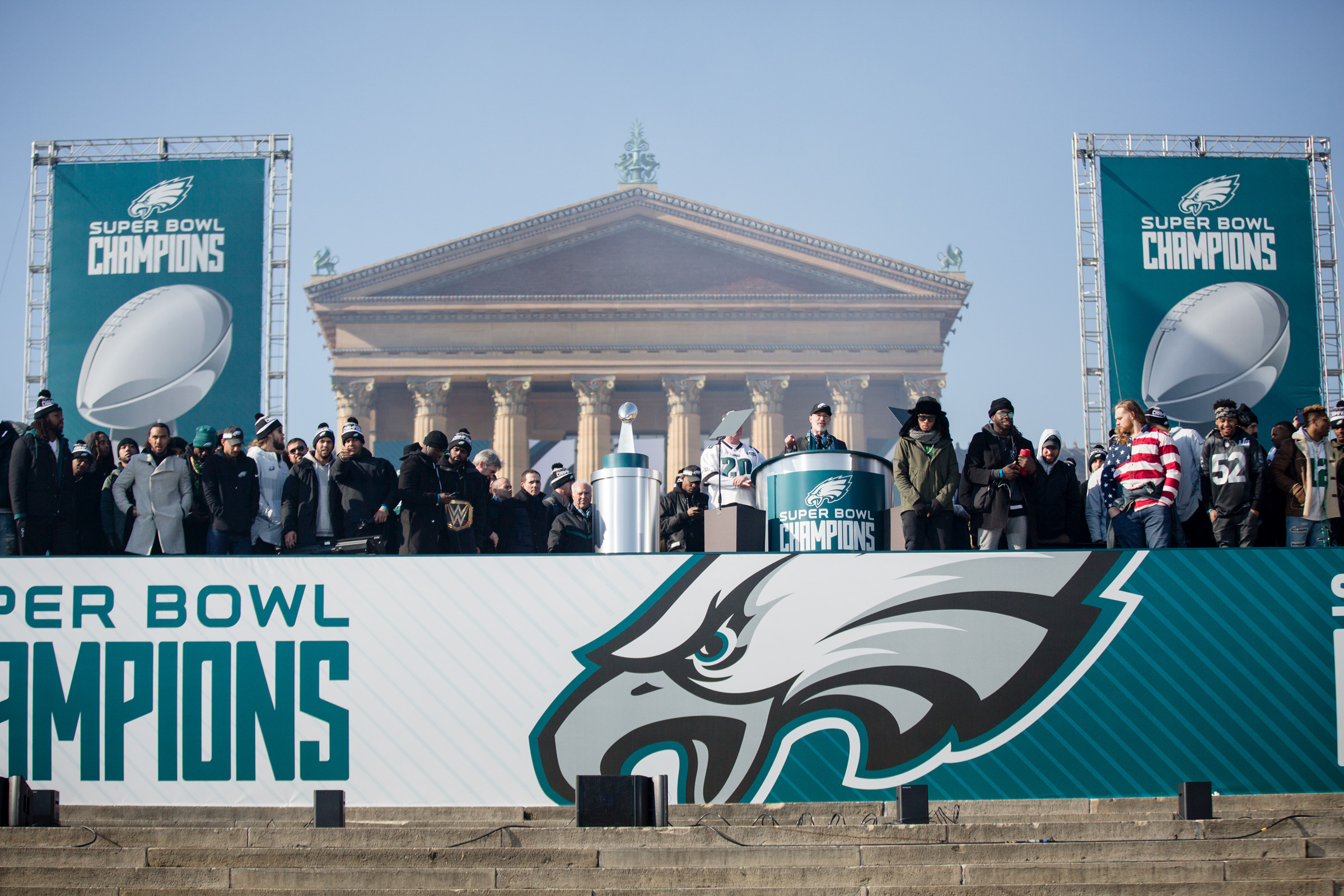 February 8, 2018 Philadelphia, PA